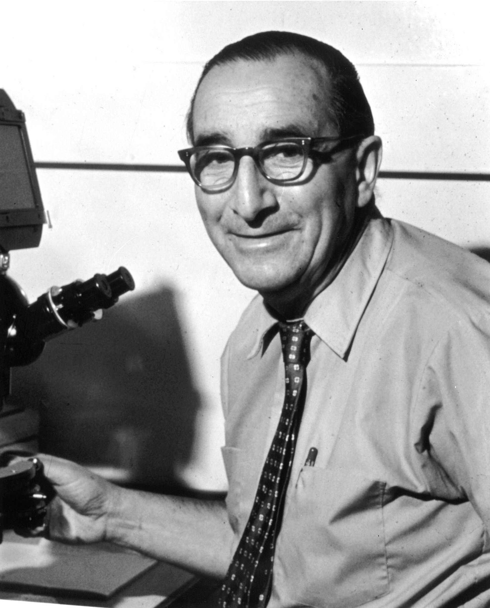 Professor Guido Pontecorvo FRS FRSE FLS PhD DrAgr Research scientists and Trustees of the Imperial Cancer Research Fund. The Imperial Cancer Research Fund was founded in 1902 in the United Kingdom as the Cancer Research Fund, changing its name to the Imperial Cancer Research Fund two years later. The charity grew over the next twenty years to become one of the world's leading cancer research charities. In 2002 it merged with The Cancer Research Campaign to form Cancer Research UK, the largest independent research organisation in the world dedicated to fighting cancer. Historic images, of uncertain dates